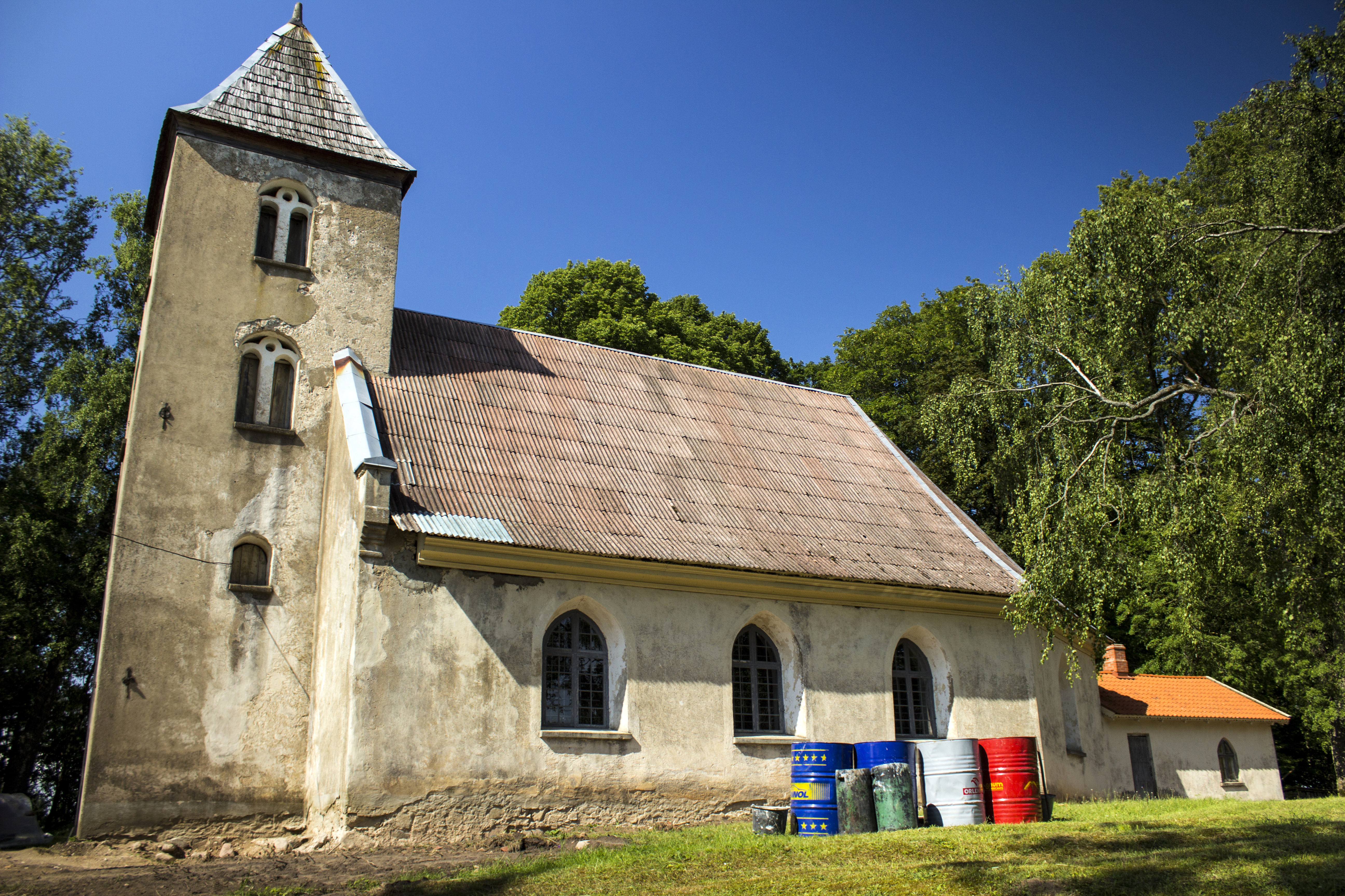 Church of Gaiķi